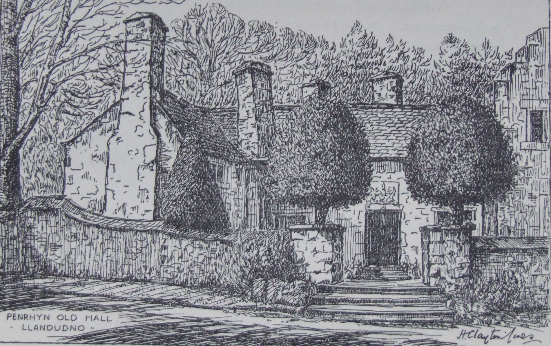 Penrhyn Old Hall, Penrhyn Bay, Conwy County, Wales. A drawing showing the old hall in its heyday. Built at the end of the 16th century replacing a medieval buildings, the hall was badly damaged by fire after being converted into a nightclub in the 1970s, rebuilt, and is now a restaurant.